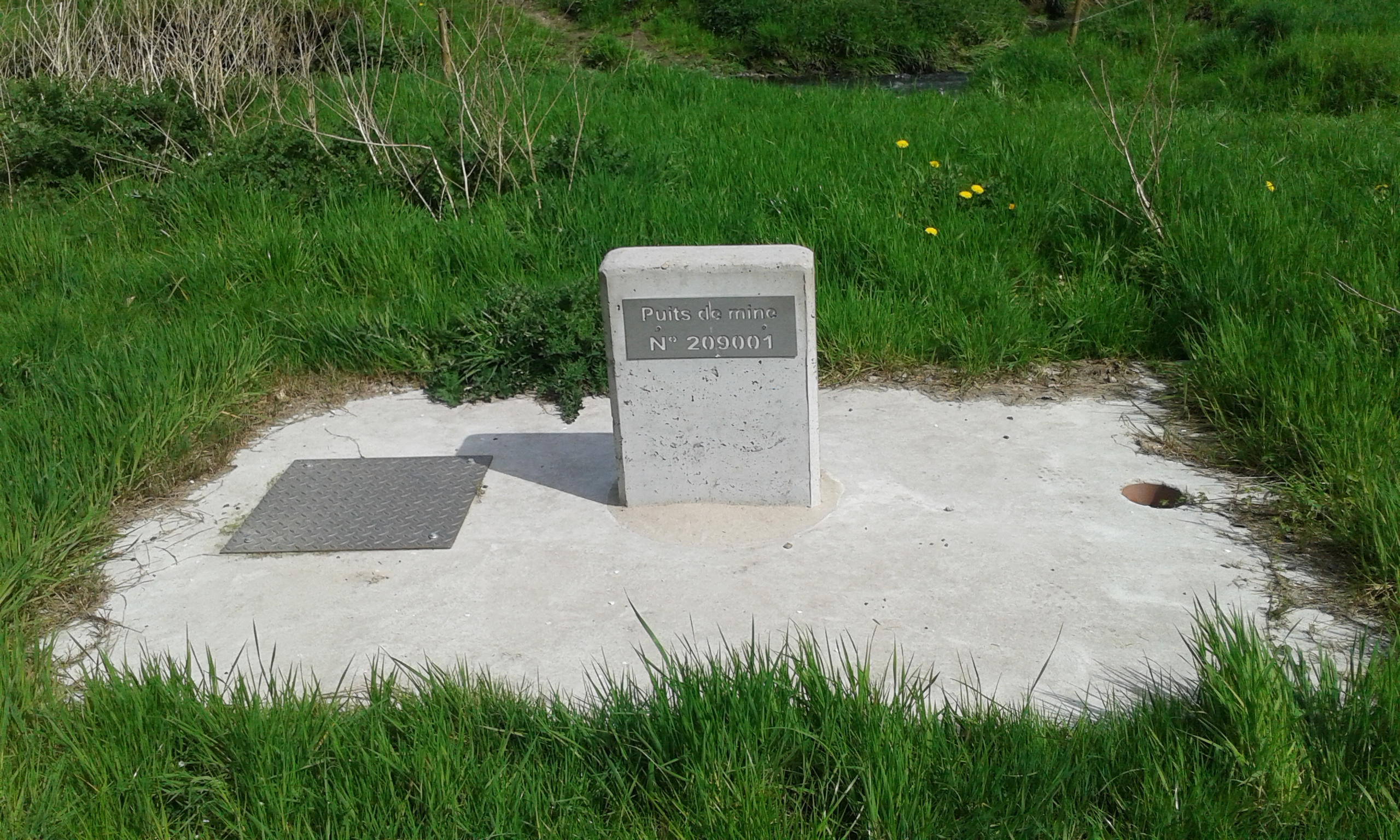 Ancient 209001 pit of the Argenteau coal mine, Belgium